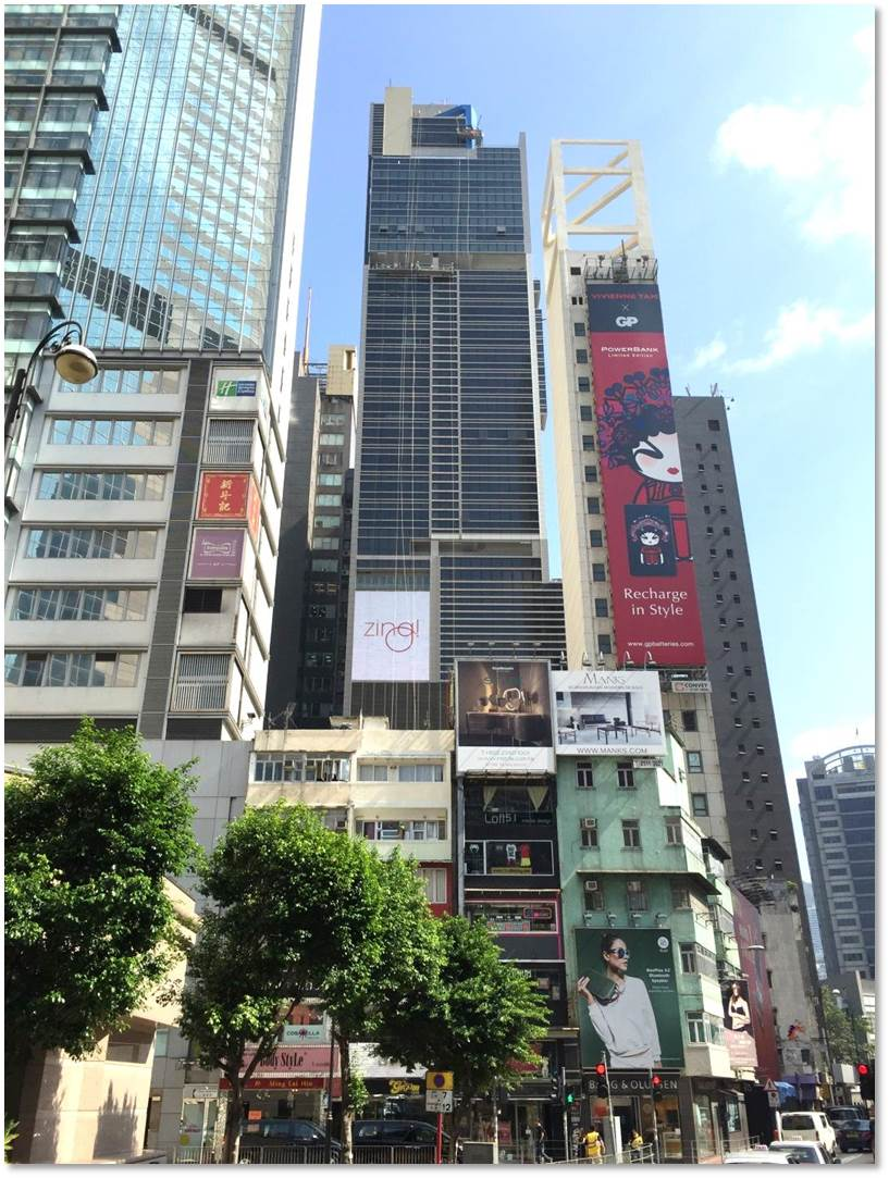 Facade of ZING! 中文（香港）: ZING! 外觀